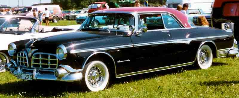 1955 Chrysler Imperial Newport C-69 series 2-Door Hardtop